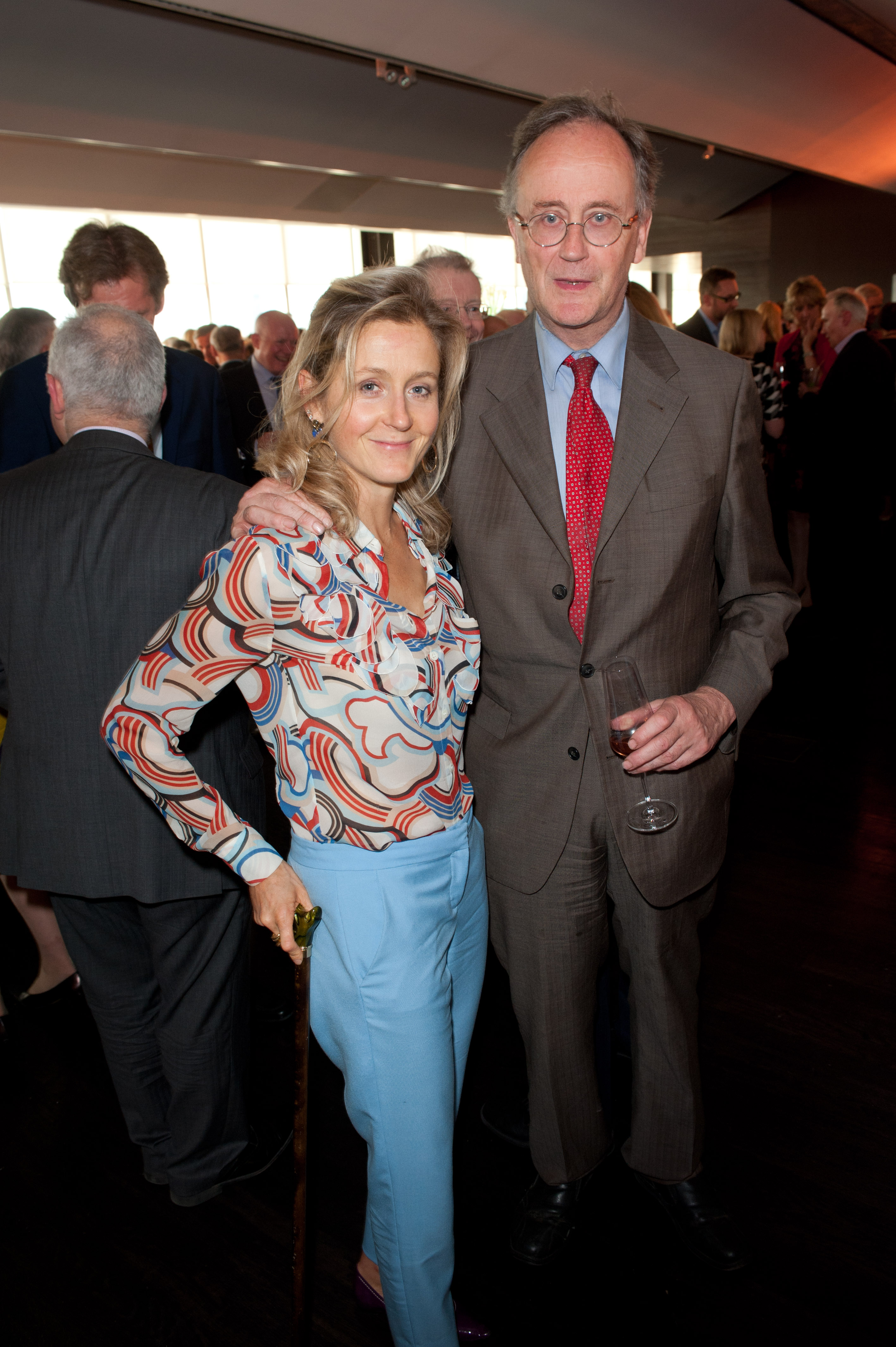 Martha Lane Fox (left) and Robin Lane Fox